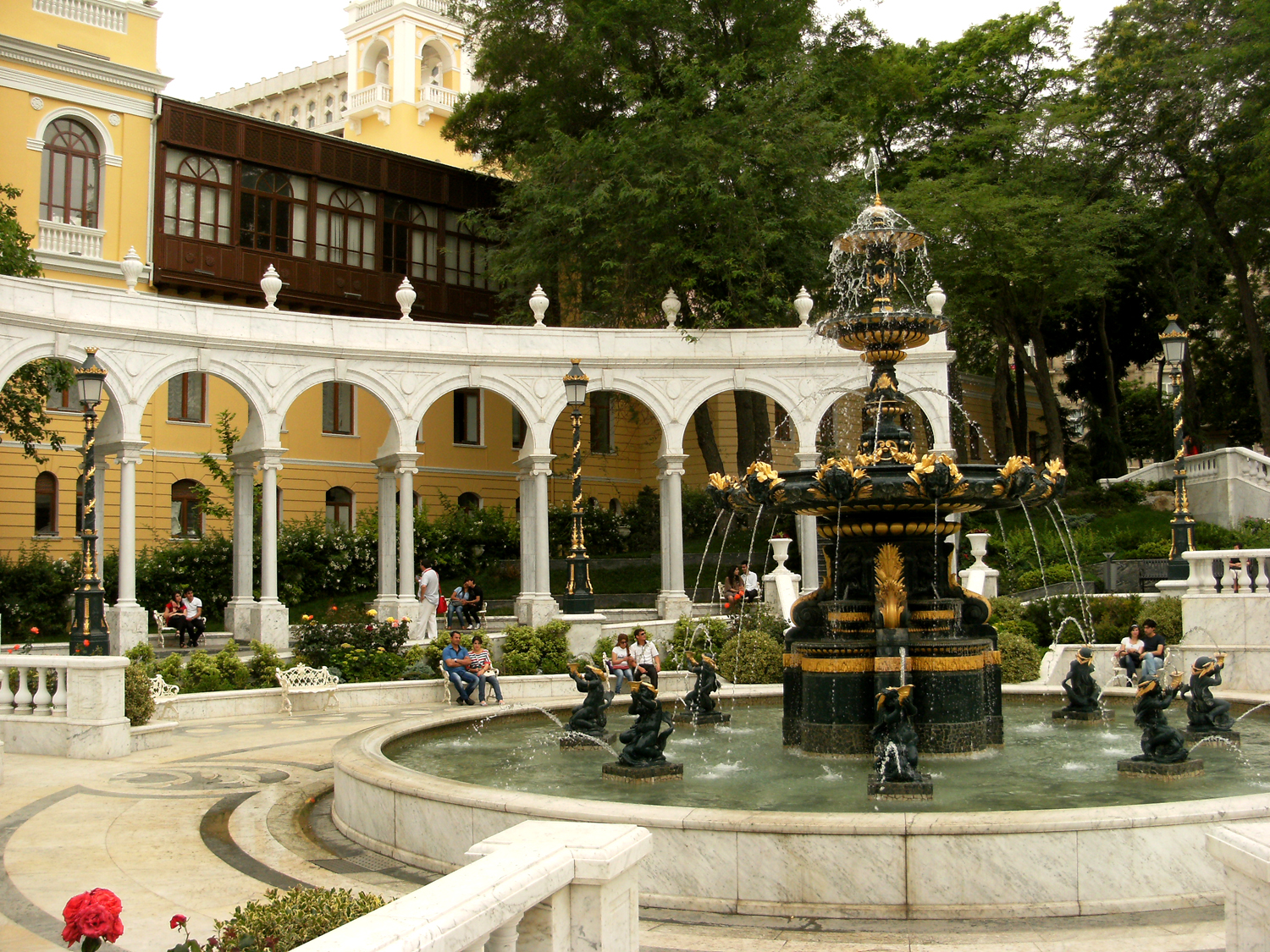 baku philharmony front